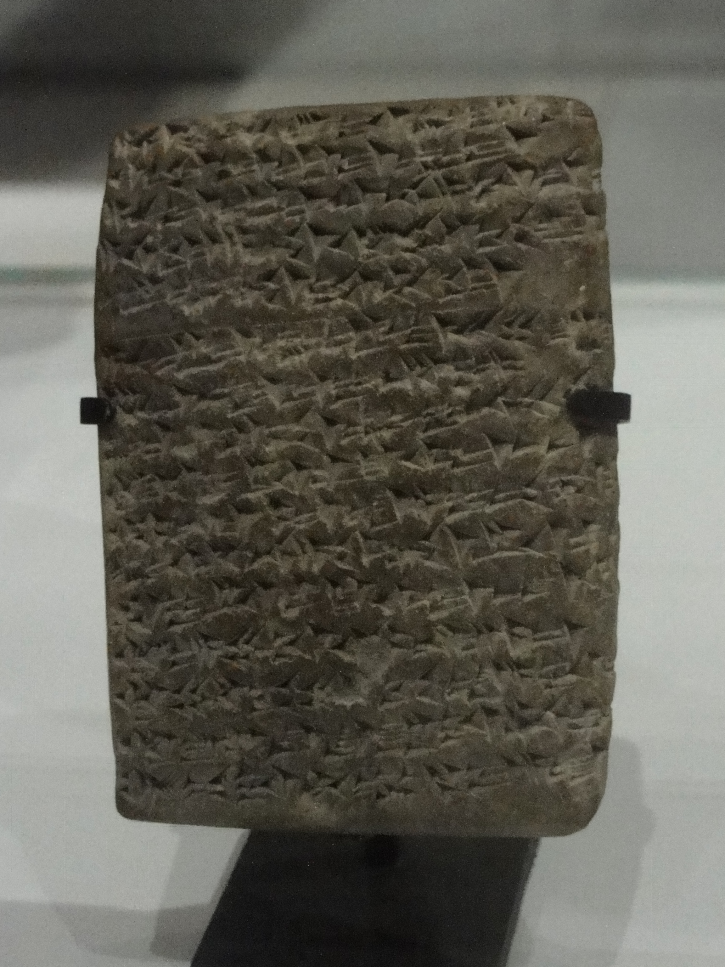 Provenance: Amarna, Egypt